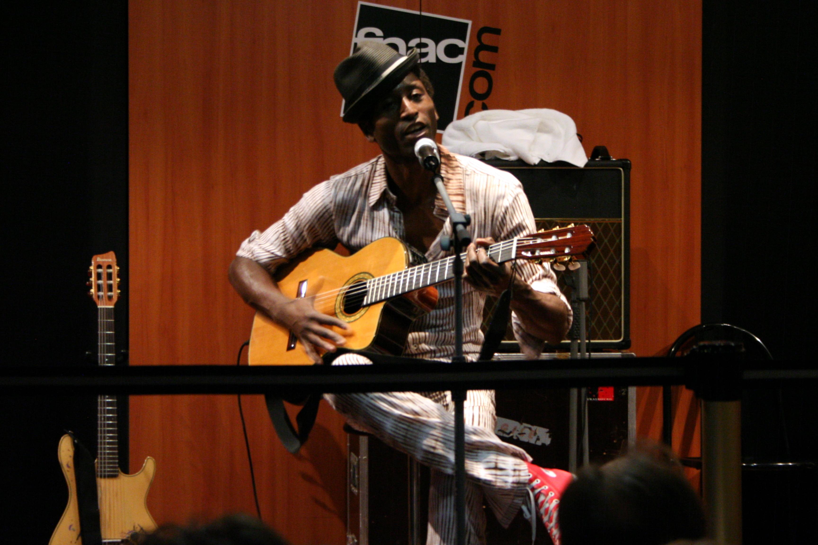 The Nigerian musician Keziah Jones paying unplugged at the Fnac Strasbourg, France.